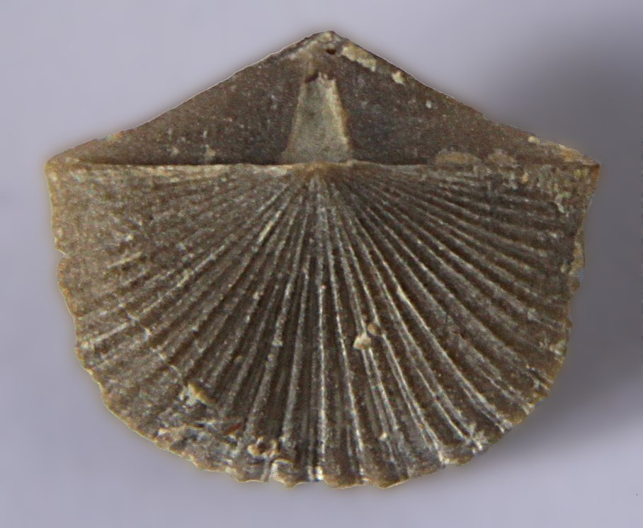 A Hesperorthis sulcata lampshell, Order Orthida, Family Hesperorthidae, 13mm along the axis, brachial valve, collected at the Mountain Lake Member, Bromide Formation, near Ardmore, Oklahoma, USA, from the early Upper Ordovician (Sandbian)